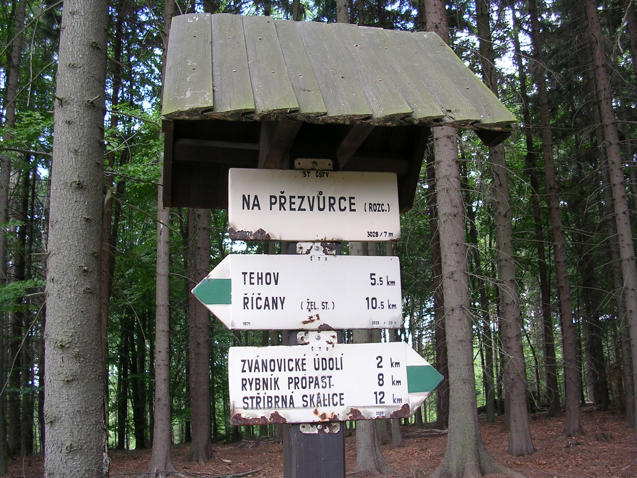 Struhařov, Central Bohemian Region, the Czech Republic.